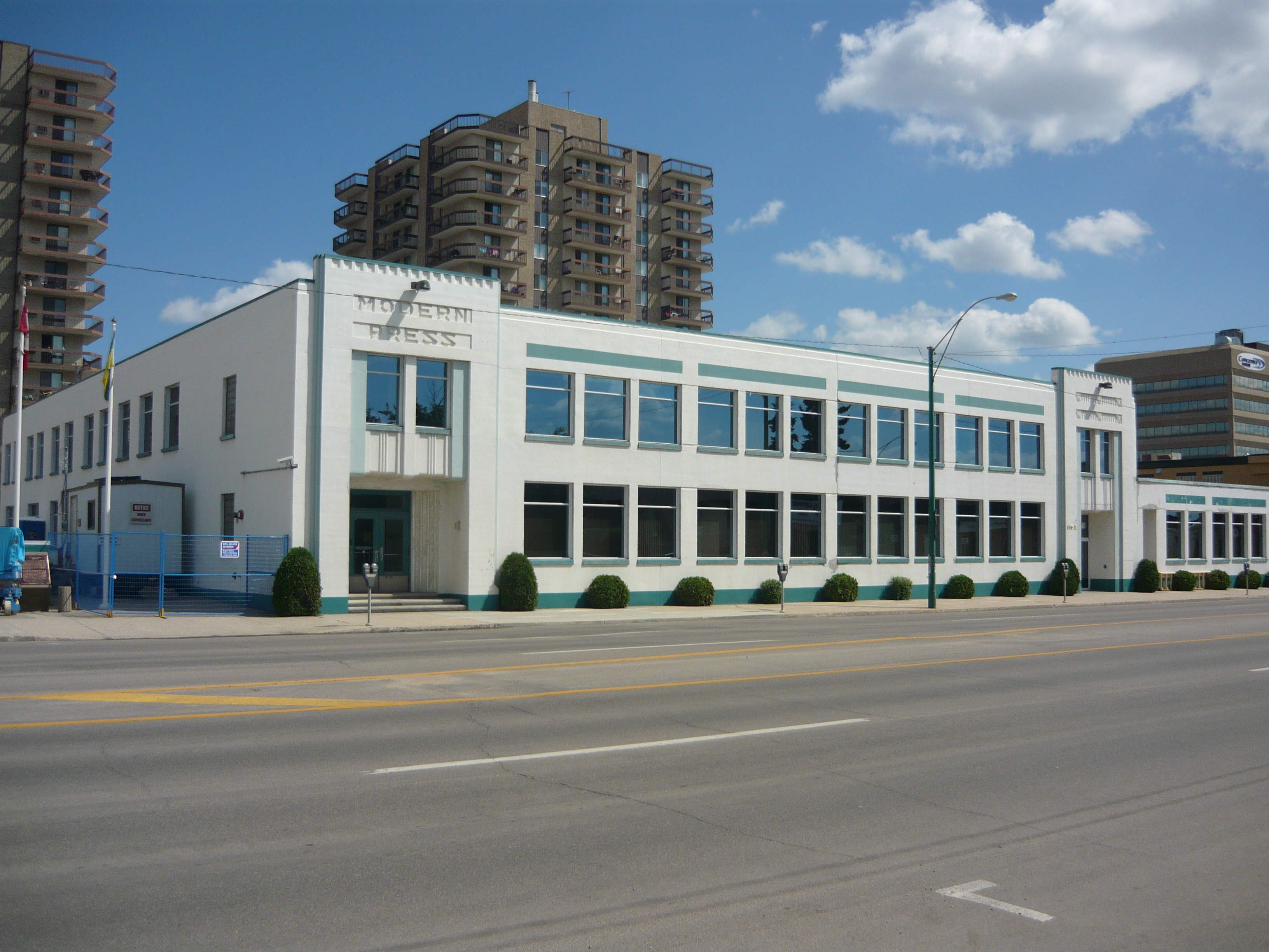 Modern Press Building (1949), 446 Second Avenue North at 26th Street East, Saskatoon, Saskatchewan, Canada. Architect: Firm of Webster and Gilbert. The interior and exterior were substantially altered in 2011-2013.